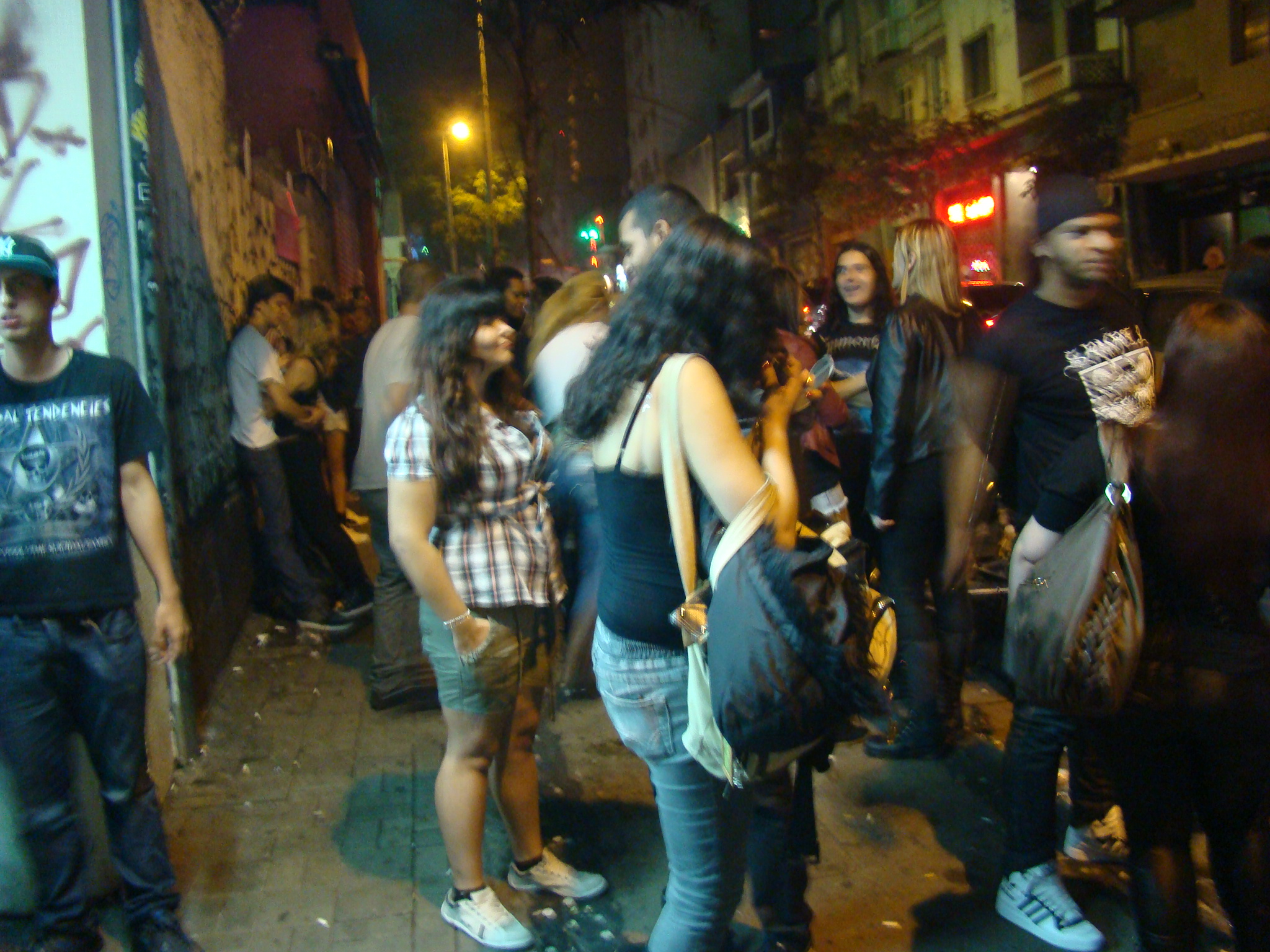 Sidewalk of a rock bar at R. Augusta (aprox. at numbers 470 and 480), São Paulo City, Brazil.